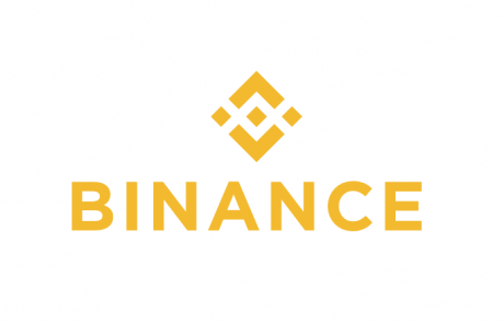 Криптоборсата Бинанс